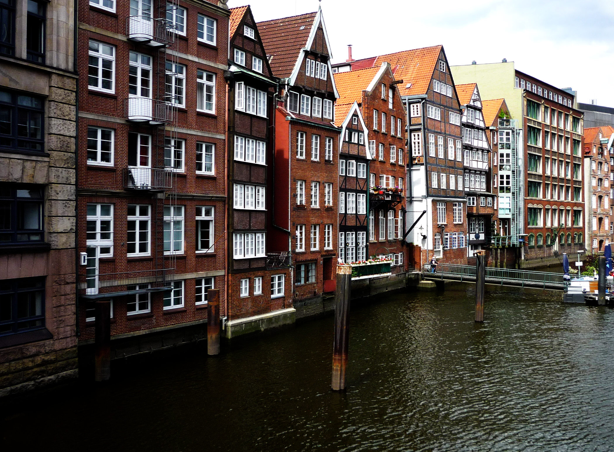 Hamburg. View from the Hohe Brücke over Nikolaifleet (Nikolai Channel).